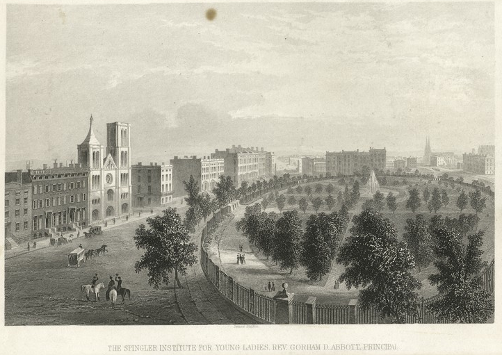 The Spingler Institute for Young Ladies, Rev. Gorham D. Abbott, Principal [West Side Union Square] / James Smillie